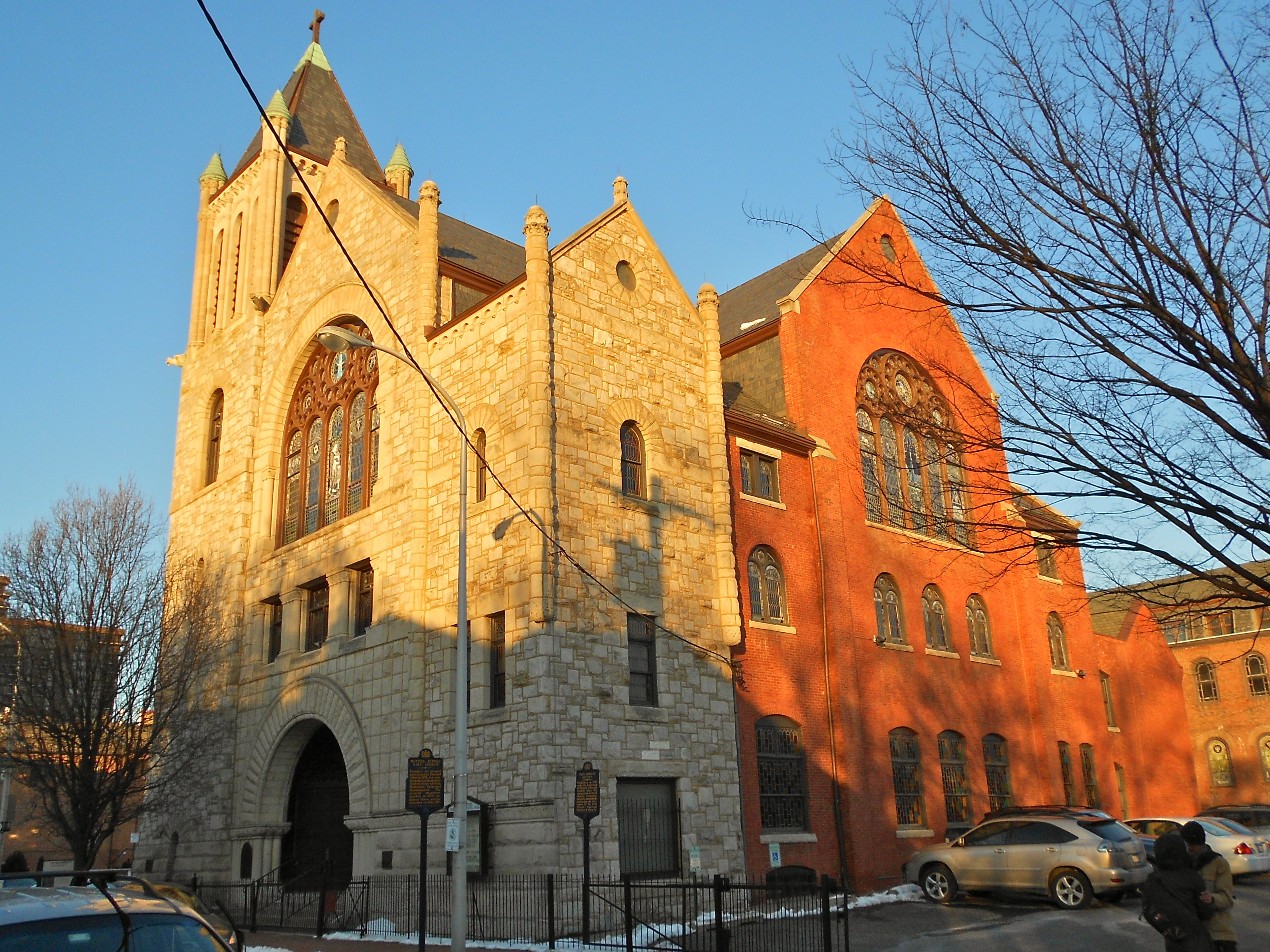 Mother Bethel A.M.E. Church listed on the NRHP on March 16, 1972 at 419 South 6th Street in the Society Hill neighborhood of Philadelphia